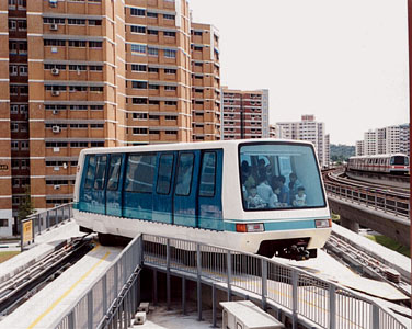 A carriage on the Bukit Panjang LRT line approaching the Choa Chu Kang station.